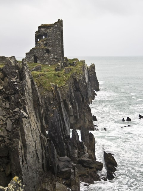 Dun an Oir, Cleire